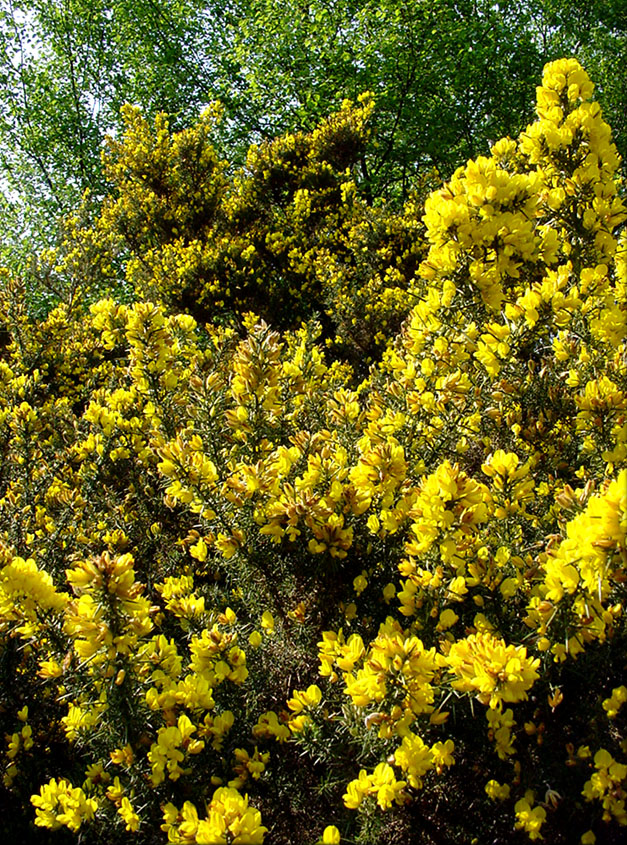 Location: “Colonne d’Helfaut”, on “Plateau d’Helfaut”, near the current Nature Reserve Landes of Helfaut (one of the old "voluntary" nature reserves, "since become regional nature reserves") in the Region Nord/Pas-de-Calais and one of four of these reserves established in compensatory measuring against the ecological fragmentation effect of the new big road cutting the plateau Helfaut (Natura 2000, Arrêté prefectoral de Biotope).